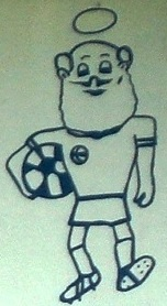 Esporte Clube São José mascot.